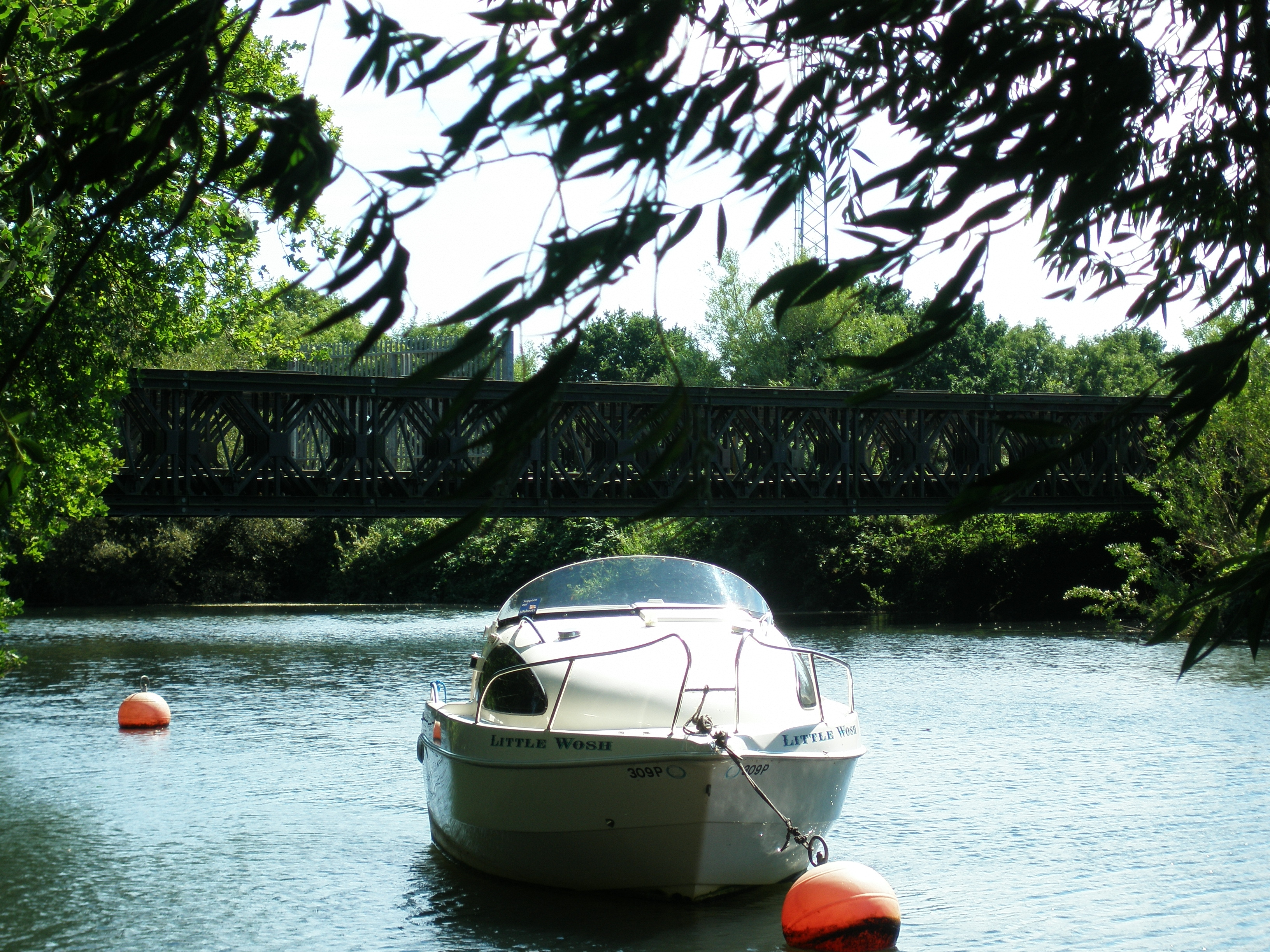 A Bailey Bridge spanning the River Stour at what was once the site of the Experimental Bridging Company of the Royal Engineers in Christchurch, Dorset. It was while working here that Sir Donald Bailey invented it and the first prototypes were designed and built.